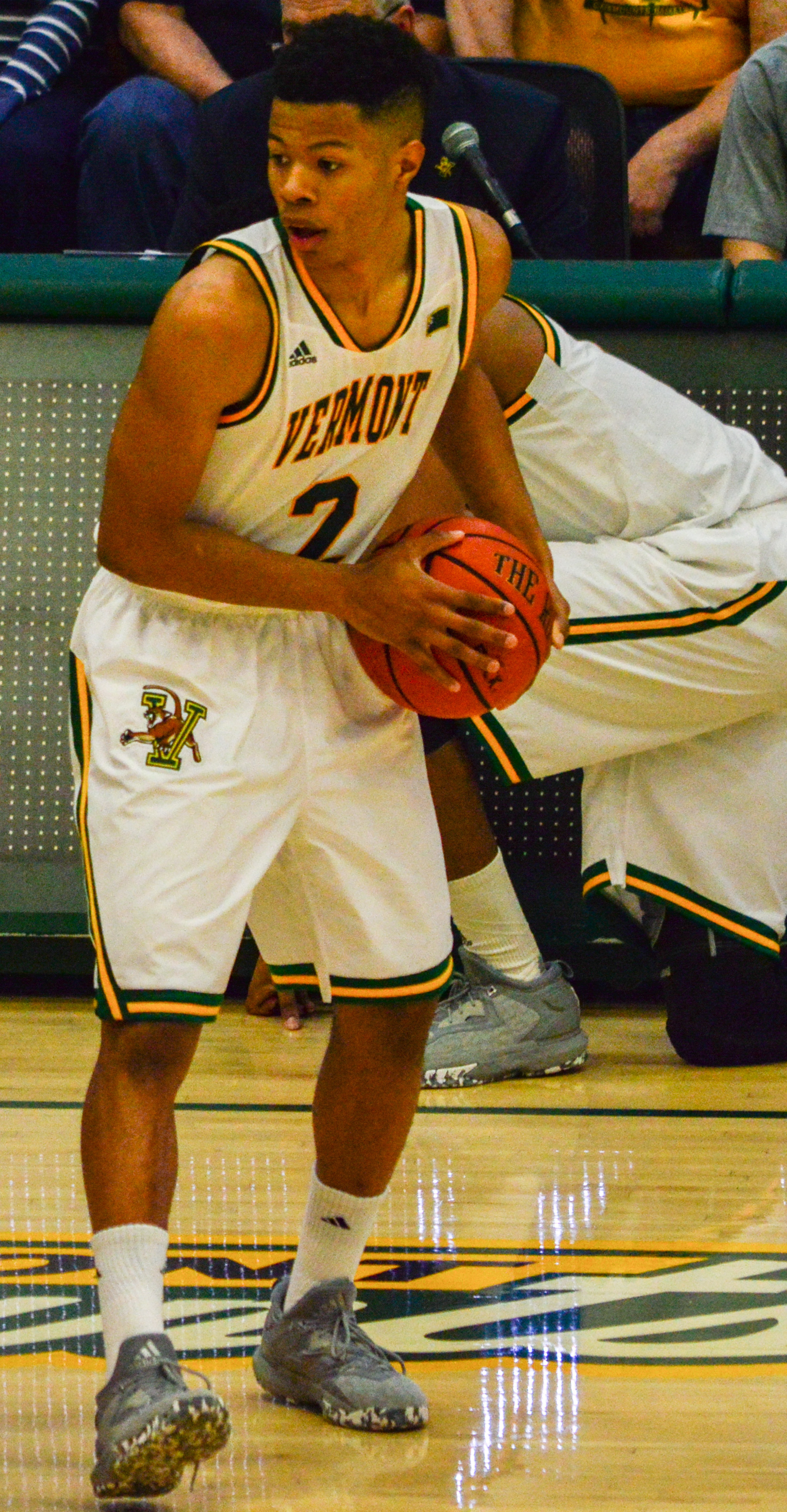 UVM Guard Trae Bell-Haynes works against Stony Brook Michael Almonacy.